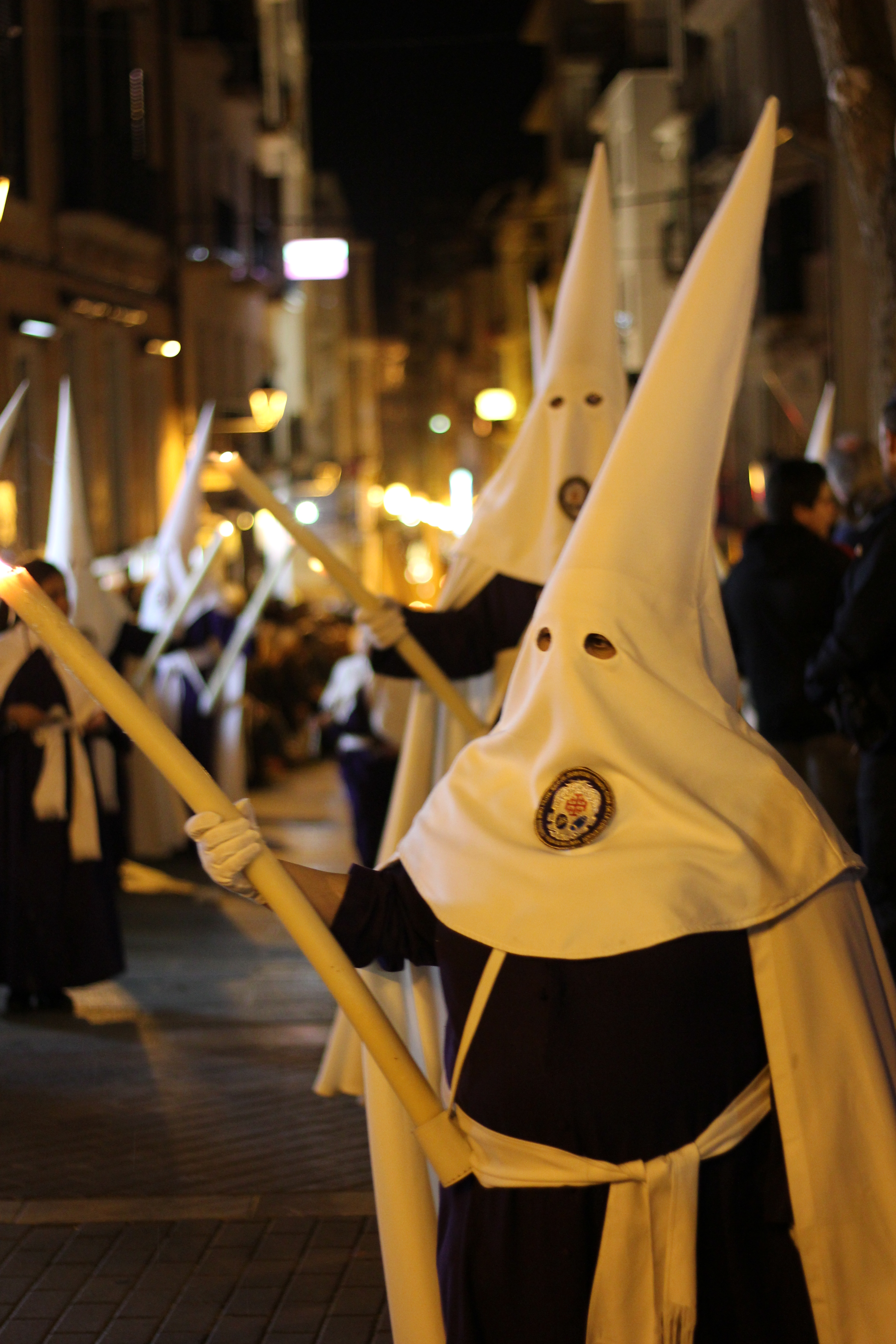 Penitent of a brotherhood during holy week's easter processions in Palma de Mallorca, 2016.